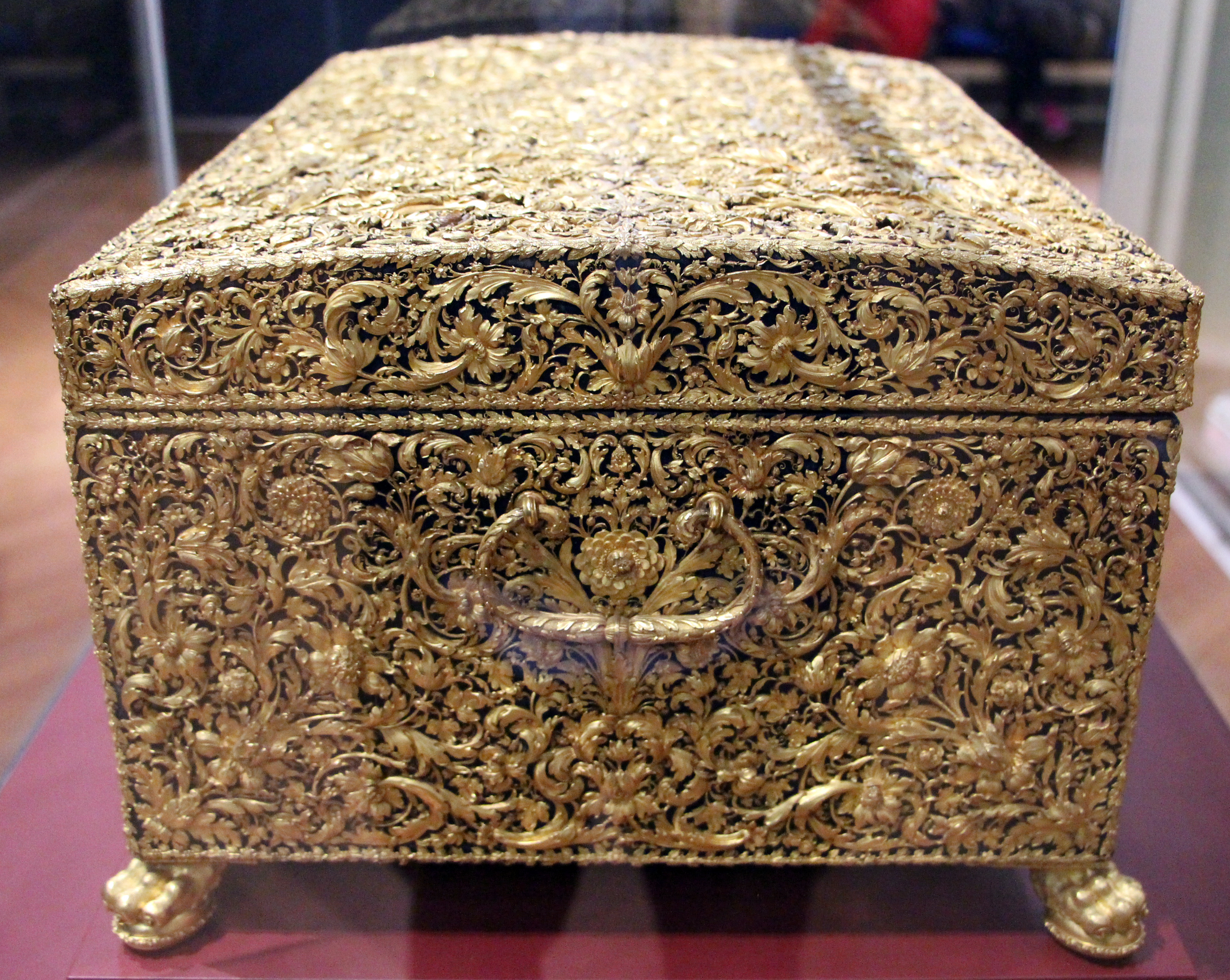 Decorative arts in the Louvre